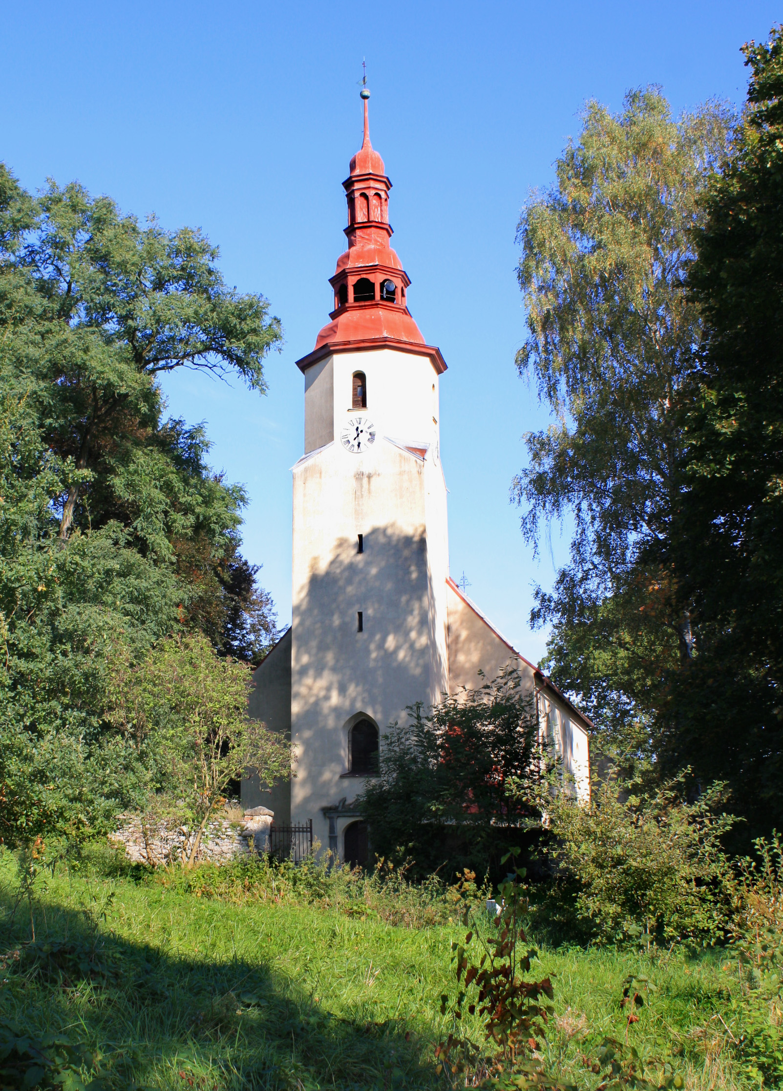 Church in the west part of Nová Ves, Czech Republic